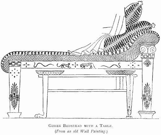 Illustration from Illustrated History of Furniture, From the Earliest to the Present Time from 1893 by Litchfield, Frederick, (1850-1930)